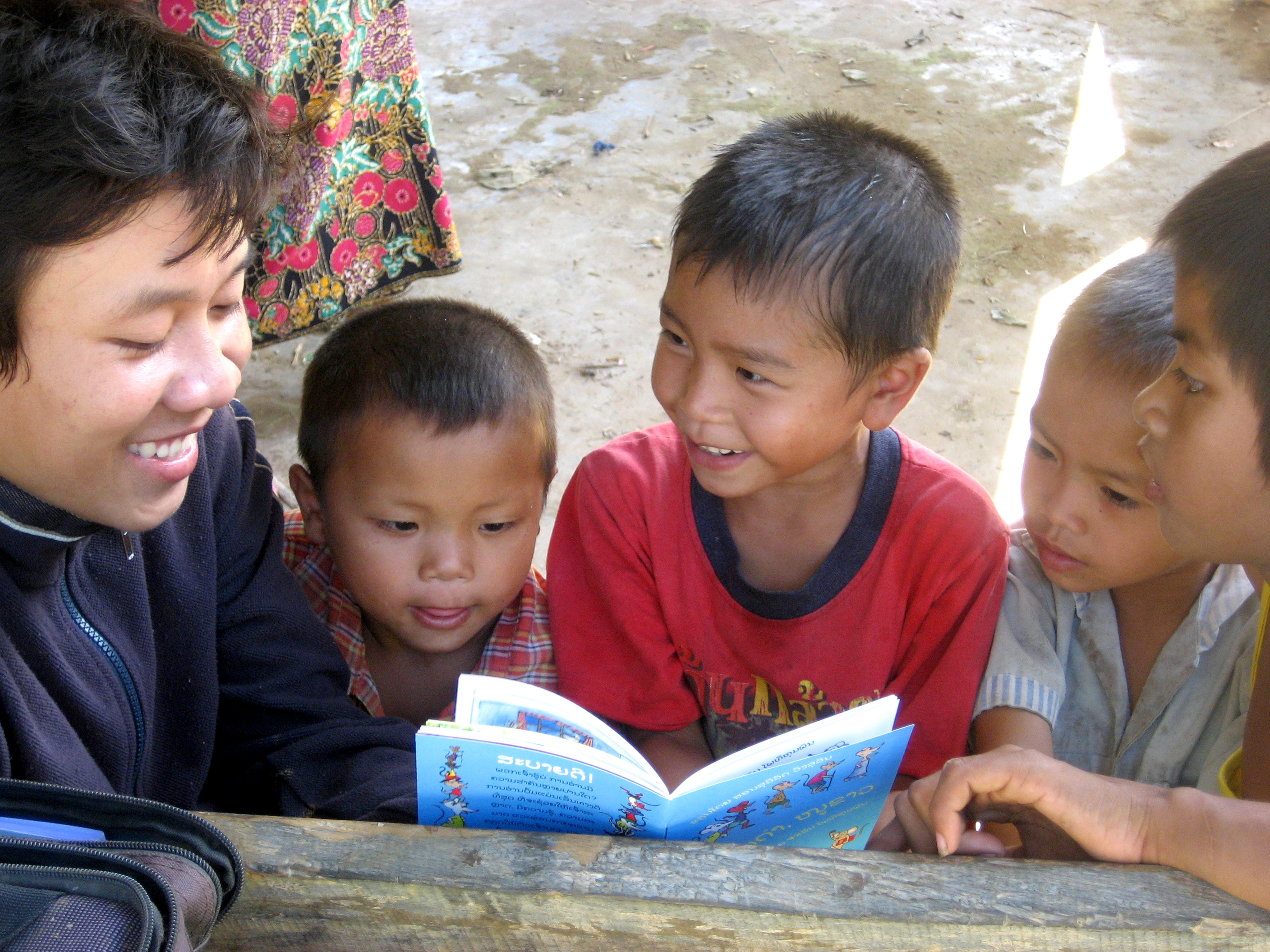 Kit, a first-year college student in Laos, reads aloud to children in a rural Lao village. Kit attended a 2-day "Book Ambassador" workshop offered by Big Brother Mouse, a literacy project, where he learned basic techniques of reading aloud: Change your voice. Pause occasionally for dramatic effect. Engage your audience. One admiring boy seems to be thinking that he'd like to do this himself one day.